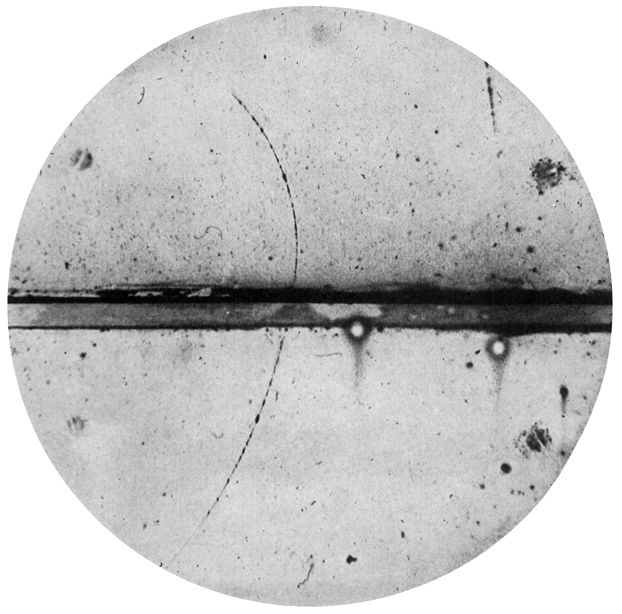 Cloud chamber photograph of the first positron ever observed. The thick horizontal line is a lead plate. The positron entered the cloud chamber in the lower left, was slowed down by the lead plane, and curved to the upper left. The curvature of the path is caused by an applied magnetic field that acts perpendicular to the image plane. The higher energy of the entering positron resulted in lower curvature of its path.Original caption: A 63 million volt positron (Hρ = 2.1×105 gauss-cm) passing through a 6 mm lead plate and emerging as a 23 million volt positron (Hρ = 7.5×104 gauss-cm). The length of this latter path is at least ten times greater than the possible length of a proton path of this curvature.